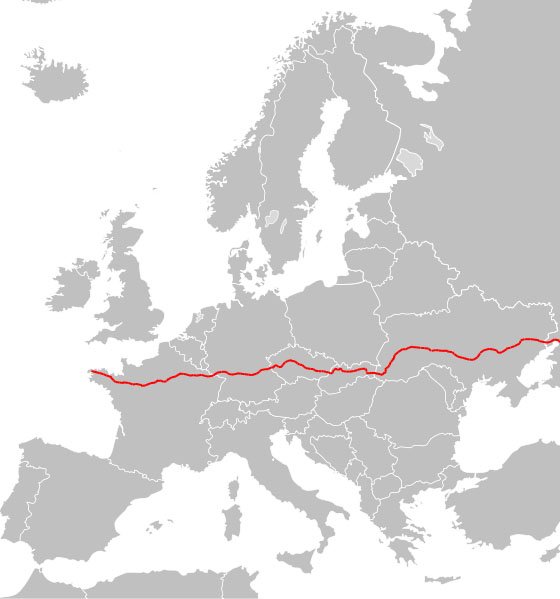 The European route 50